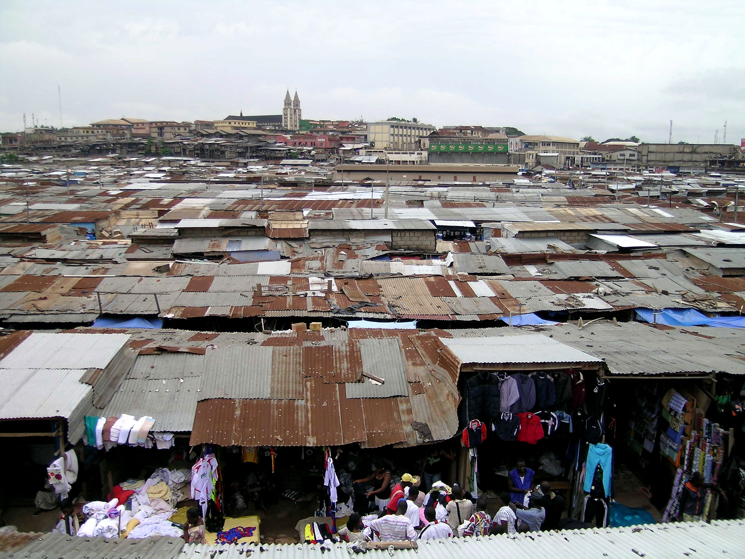 Market in Kumasi, Ghana.